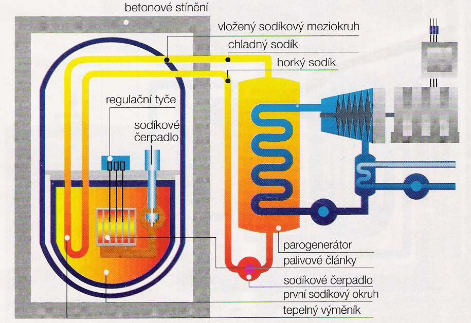 Fast Breeder Reactor